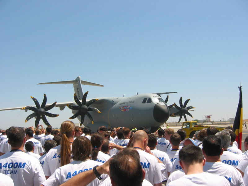 The first Airbus A400M, surrounded by EADS employees, during the aircraft's world-premiere presentation (roll-out), celebrated in Seville on 26 June 2008.